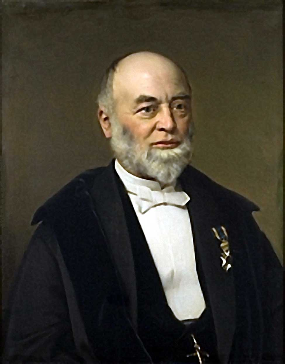 Rempt Tobias Hugo Pieter Liebrecht Alexander van Boneval Faure (1826-1909) Dutch jurist and politician